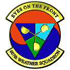 607th Weather Squadron unit emblem